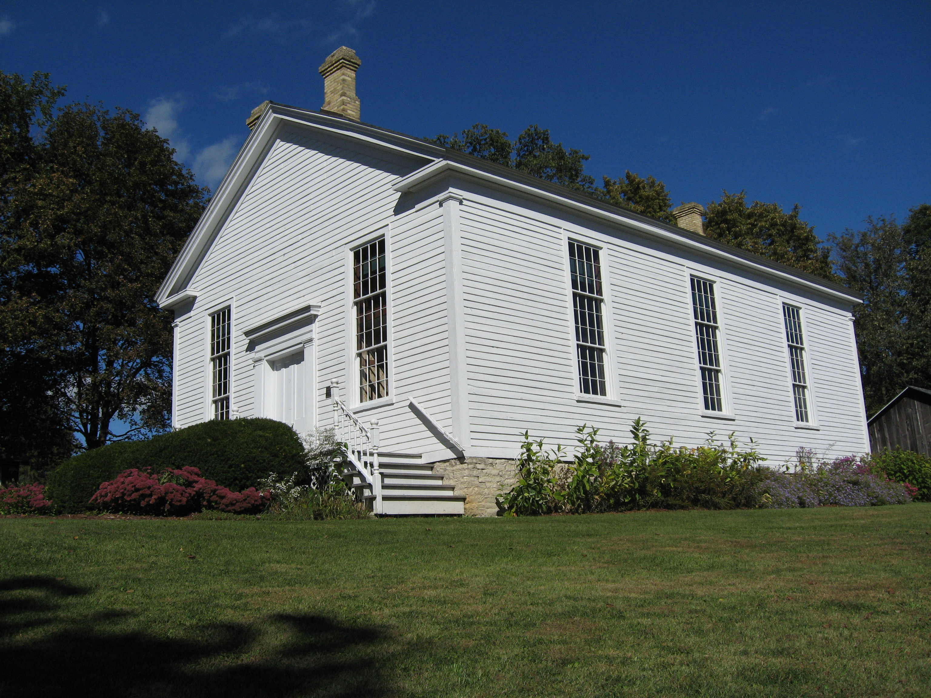 Reformed Presbyterian Church of Vernon, W234 S7710 Big Bend DR, Vernon, Waukesha County, Wisconsin, USA Text from historical marker: "Covenanter Built in 1854/ Organized by Scottish settlers in October, 1848 with Rev. James Milligan at the home of James Wright Sr. The last regular services were held in 1920. This was the only Covenanter church ever formed in Wisconsin./Waukesha County Museum 2007" There is also a cemetery on the property.